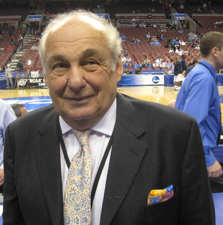 Rollie Massimino at the 2009 NCAA tournament in Philadelphia. 2009 03 21